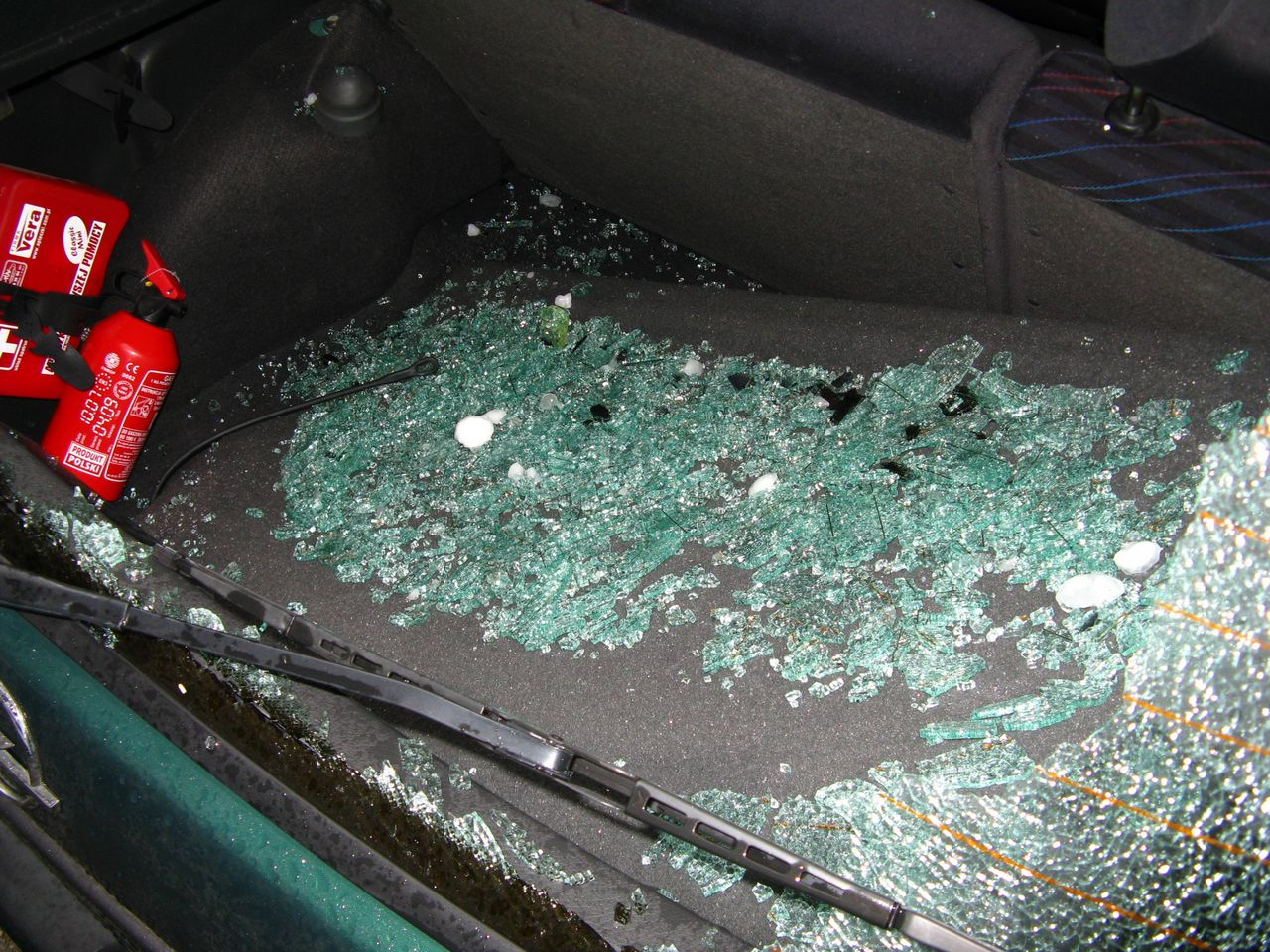 Hail, Katowice, 15 august 2008